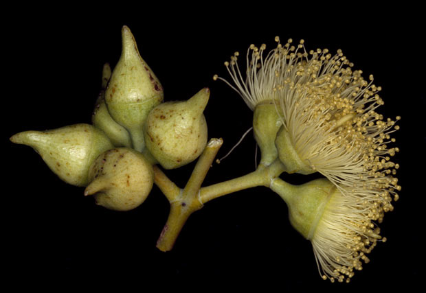 Flower buds and flowers of Eucalyptus oxymitra, near the road to Skirmish Hill, south of the Blackstone to Mulga Park road, Western Australia